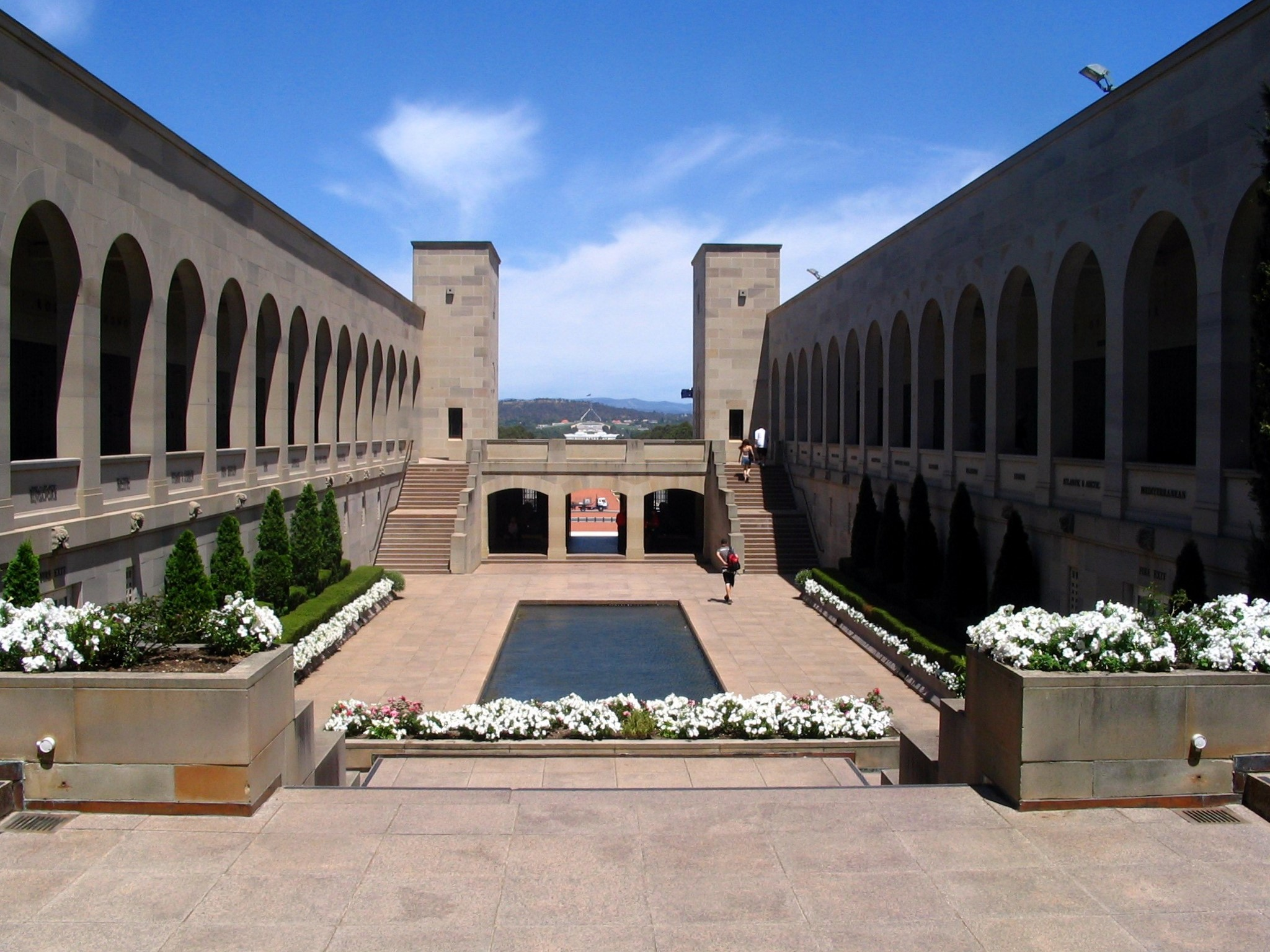 Commemorative Courtyard of the Australian War Memorial, Canberra. View in the direction of the main entrance.